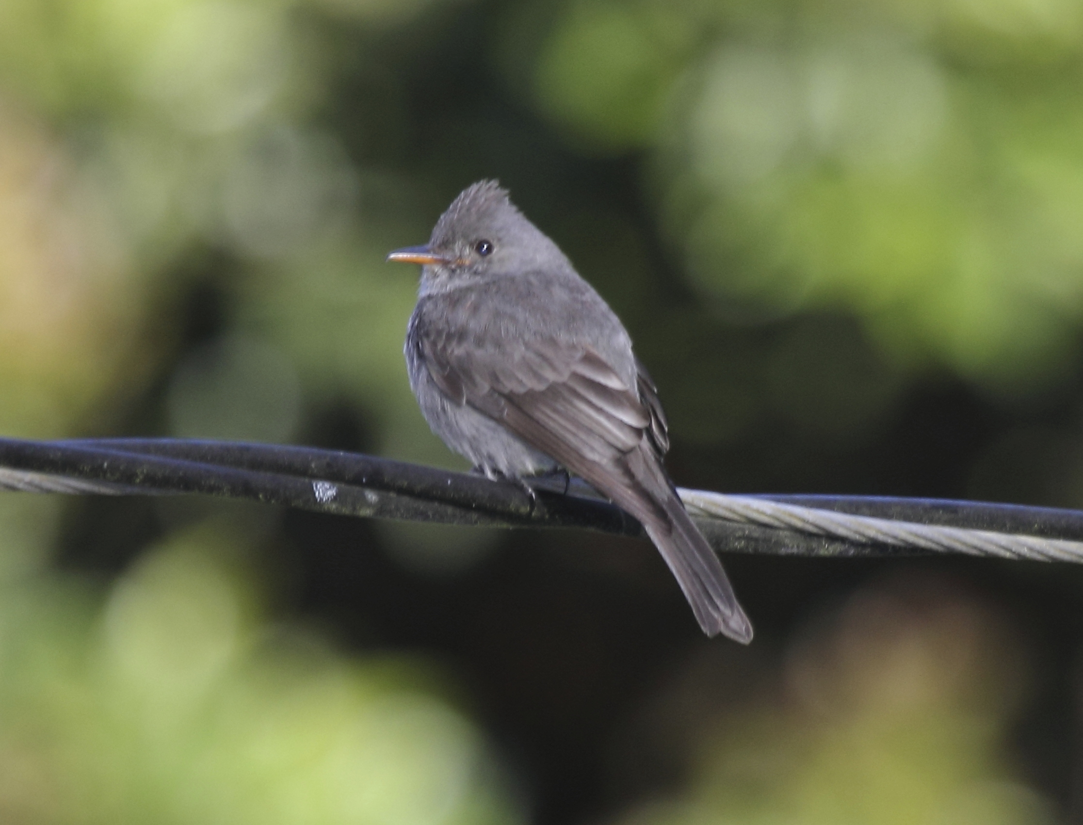 Dark Pewee (Contopus lugubris) at Savegre, Costa Rica